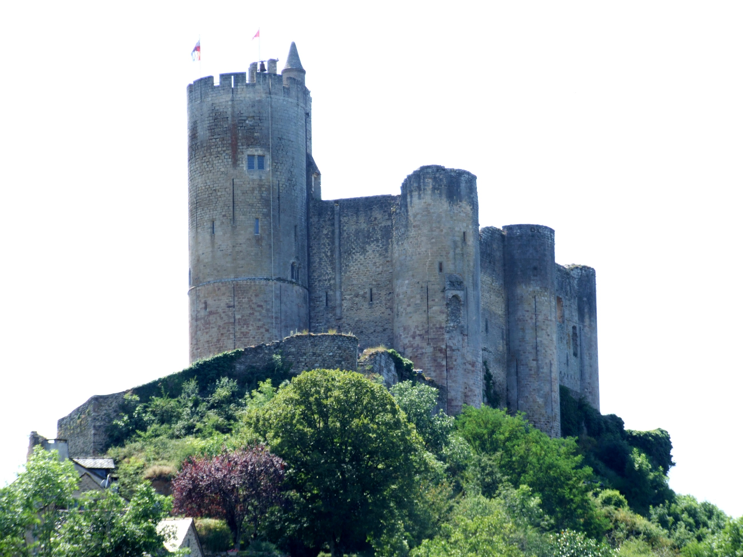 Najac, Aveyron, FRANCE